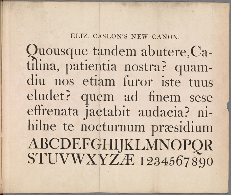 Eliz. Caslon's New Canon, No. 1 of 1785